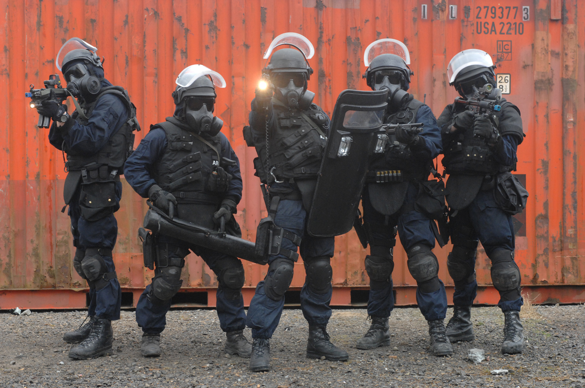 Irish Army Ranger Wing (ARW) counter terrorism display for ARW 30th anniversary.